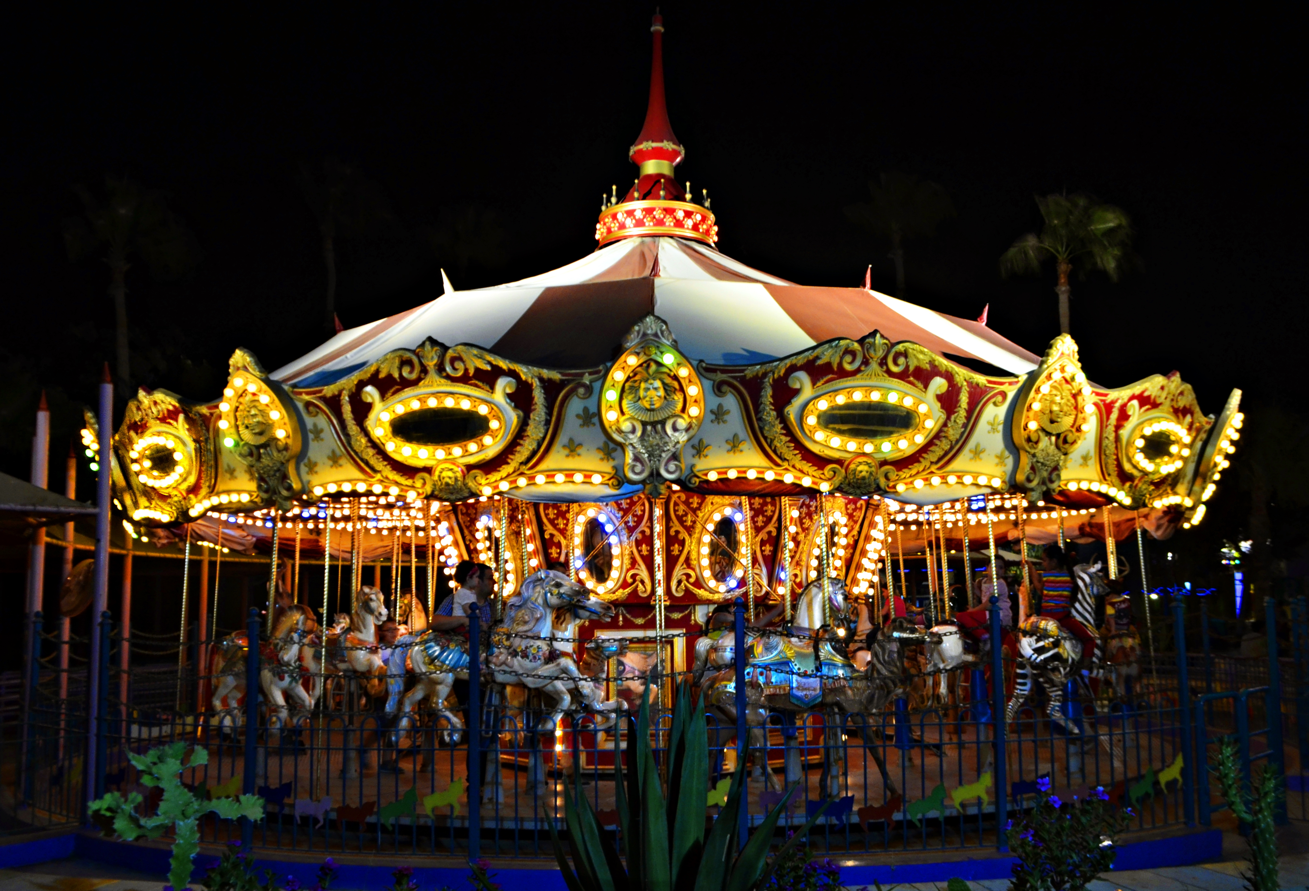 Carousel, 6th of October City, Egypt